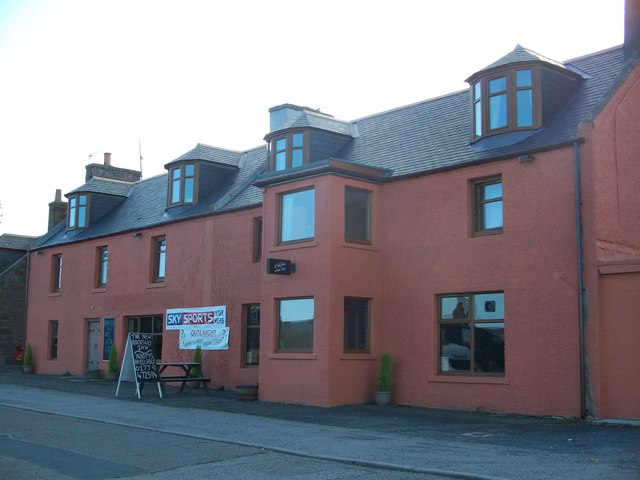 The Rocksley Inn at Stirling Village The Rocksley Inn in Stirling village has undergone major development over the past three years with the bar and function areas being totally modernized. for more information and pictures.